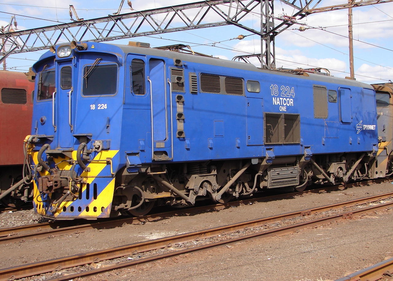 Spoornet Class 18E Series 1 18-224 Location: Ladysmith, Kwa-Zulu Natal History: Rebuilt in 2005 from Class 6E1 Series 9 E2070